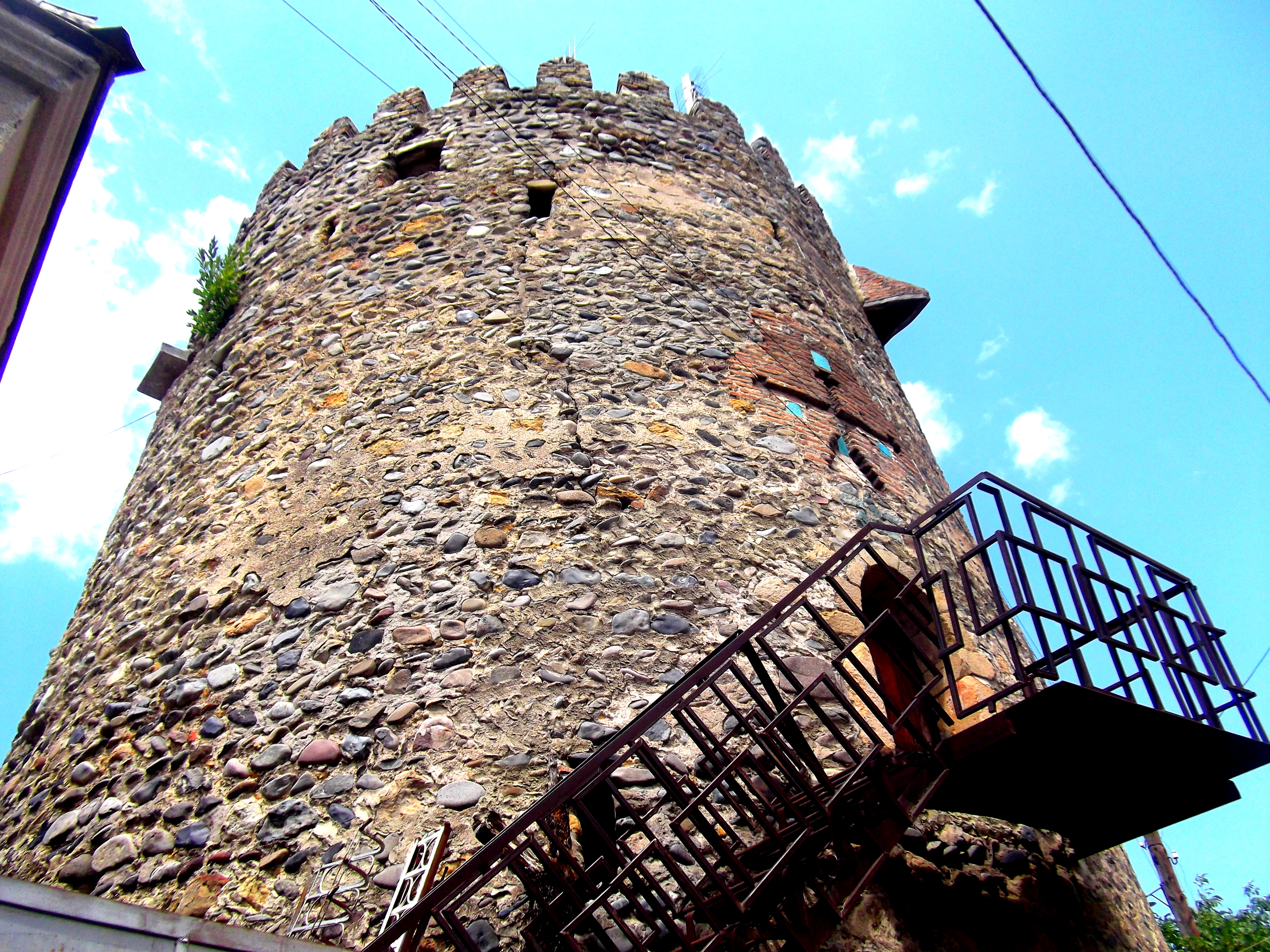 khashuri